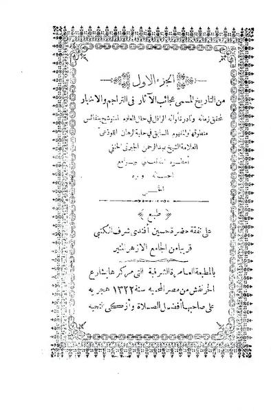 تاريخ الجبرتي